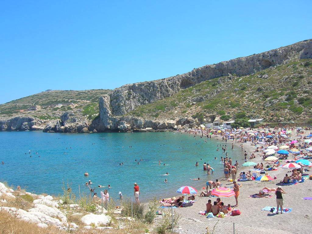 Kakia Thalassa beach, Keratea, Attica